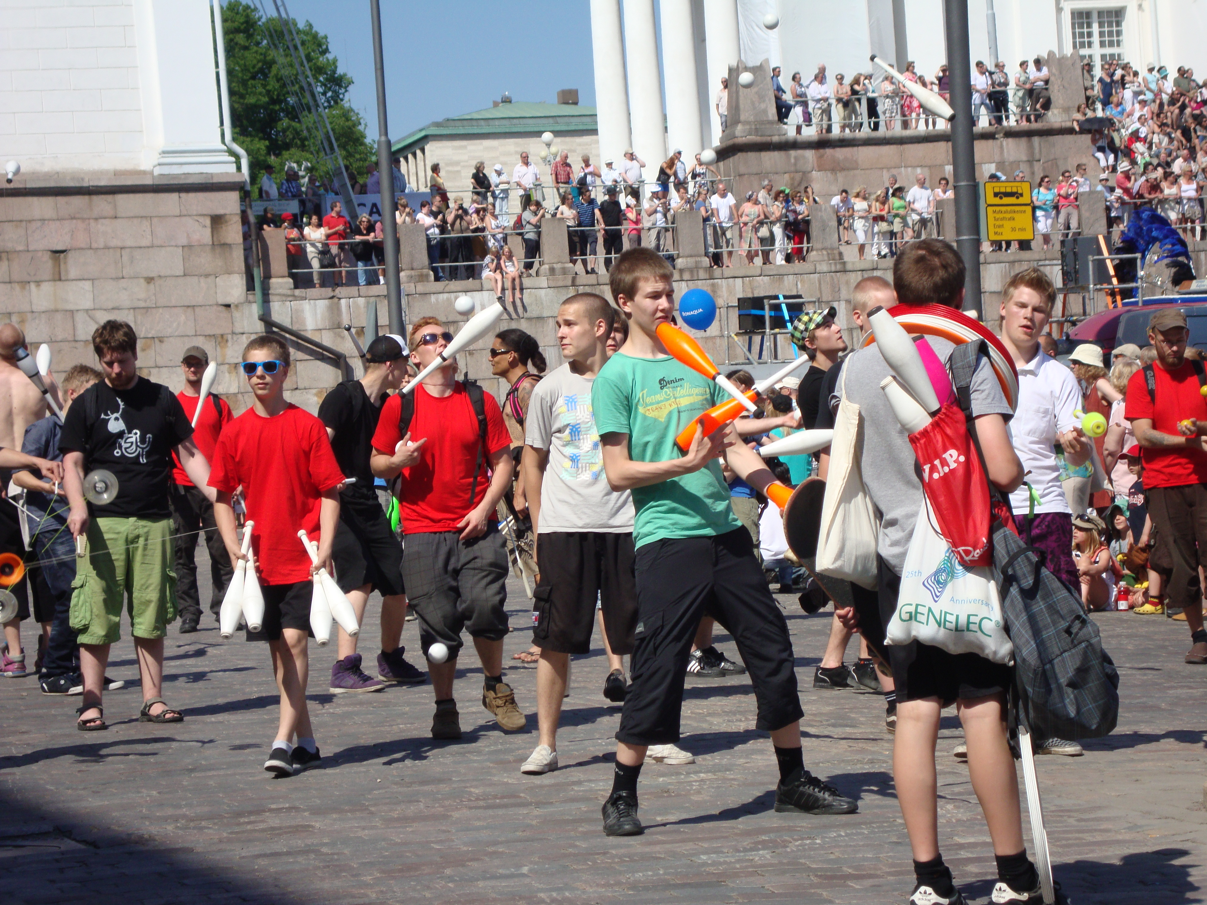 Jugglers in Helsinki Samba Carnaval 2011 Procession.